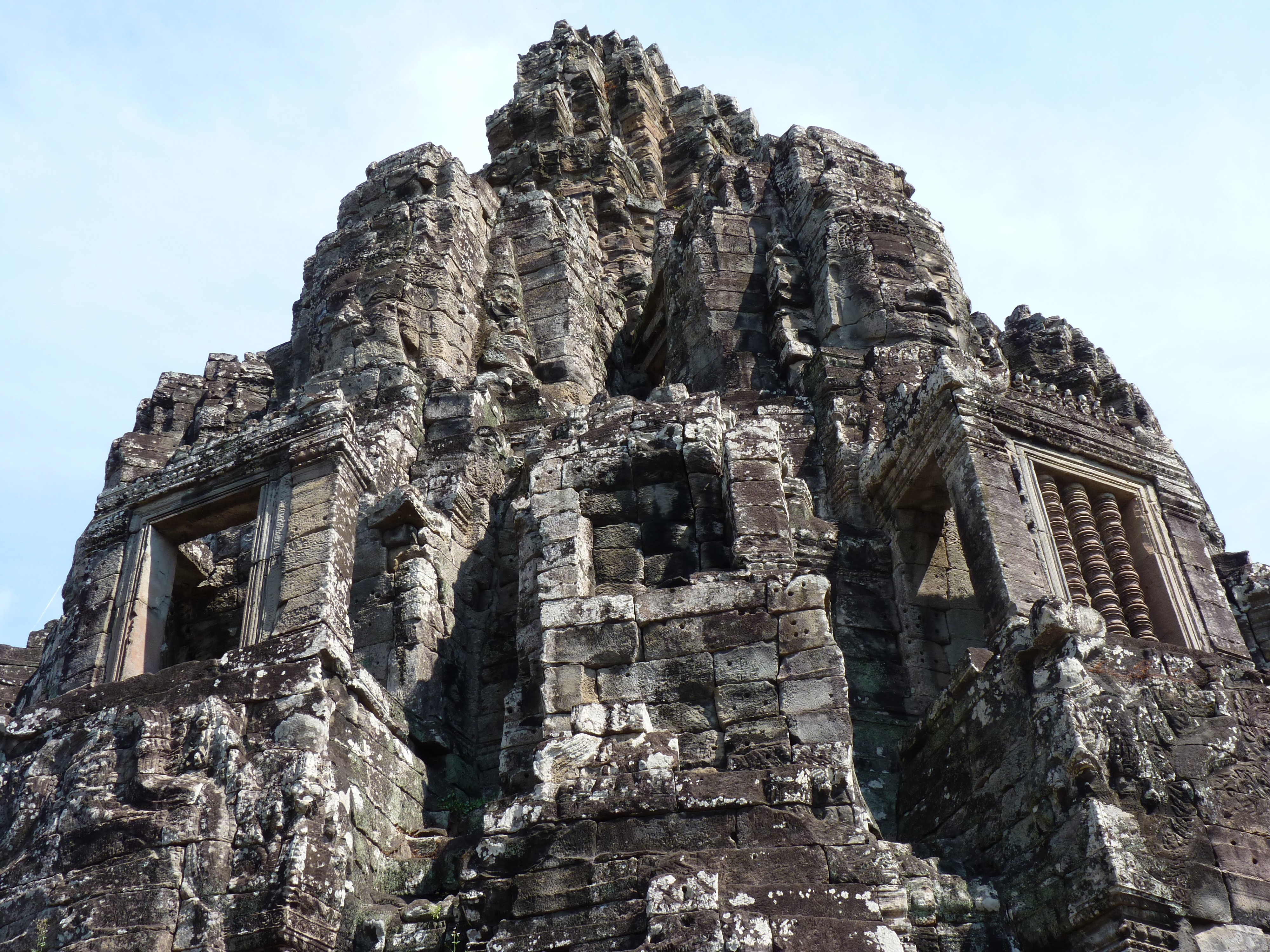 Bayon, Angkor